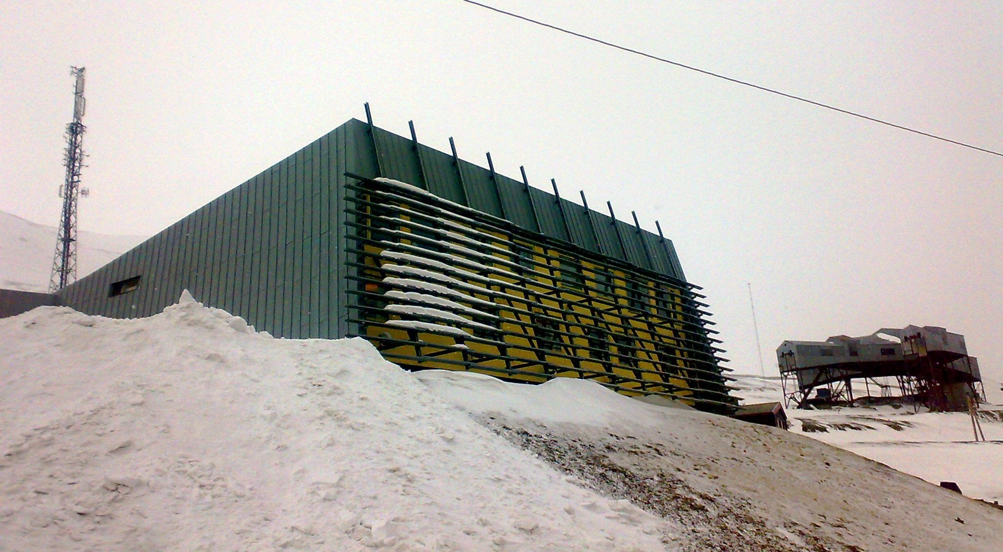 Office of the Governor of Svalbard (Sysselmannen), Longyearbyen